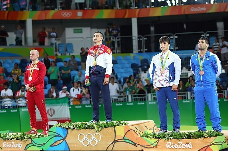 Wrestling at the 2016 Summer Olympics – Men's Greco-Roman 75 kg. Podium from left to right: MADSEN Mark Overgaard (Denmark, silver); VLASOV Roman (Russia, gold); KIM Hyeonwoo (South Korea, bronze); Abdevali Saeid Morad (Iran, bronze)